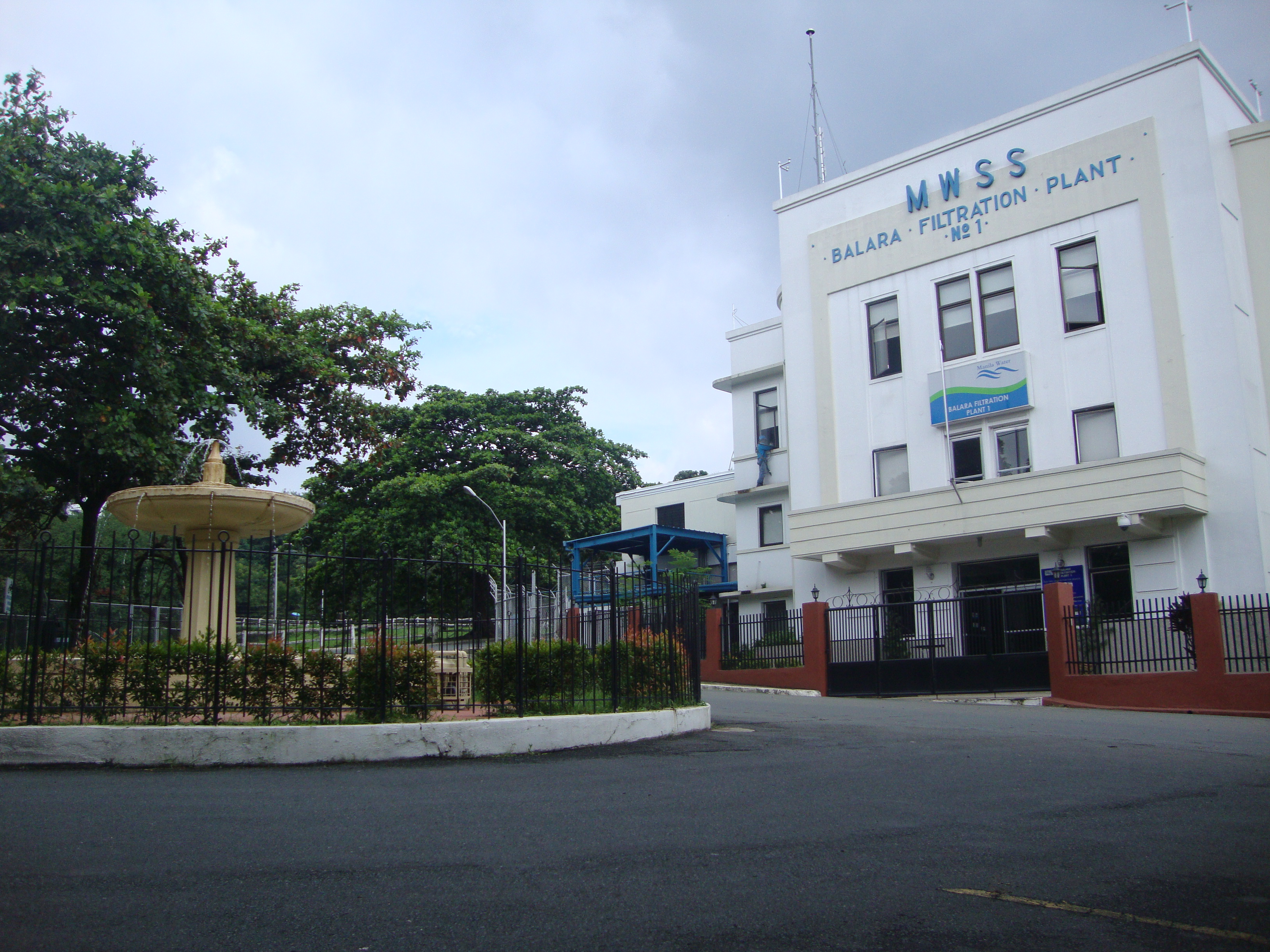 MWSS Balara Filtration Plant in Matandang Balara, Diliman, Quezon City